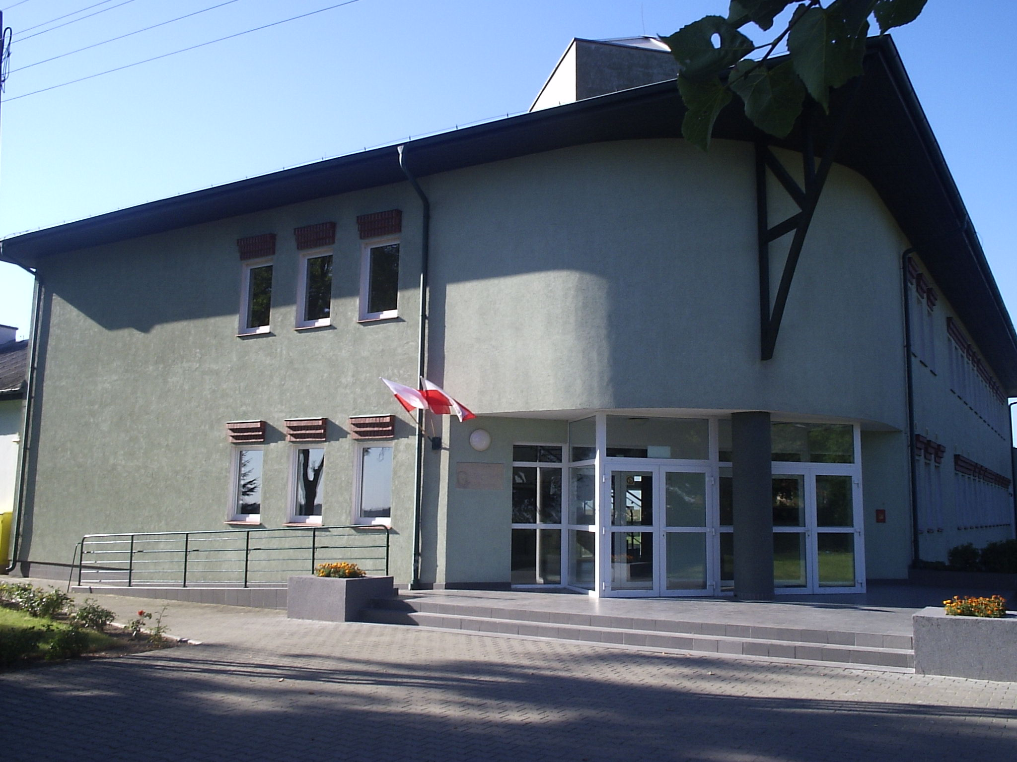 Shool in Siemowo, Poland